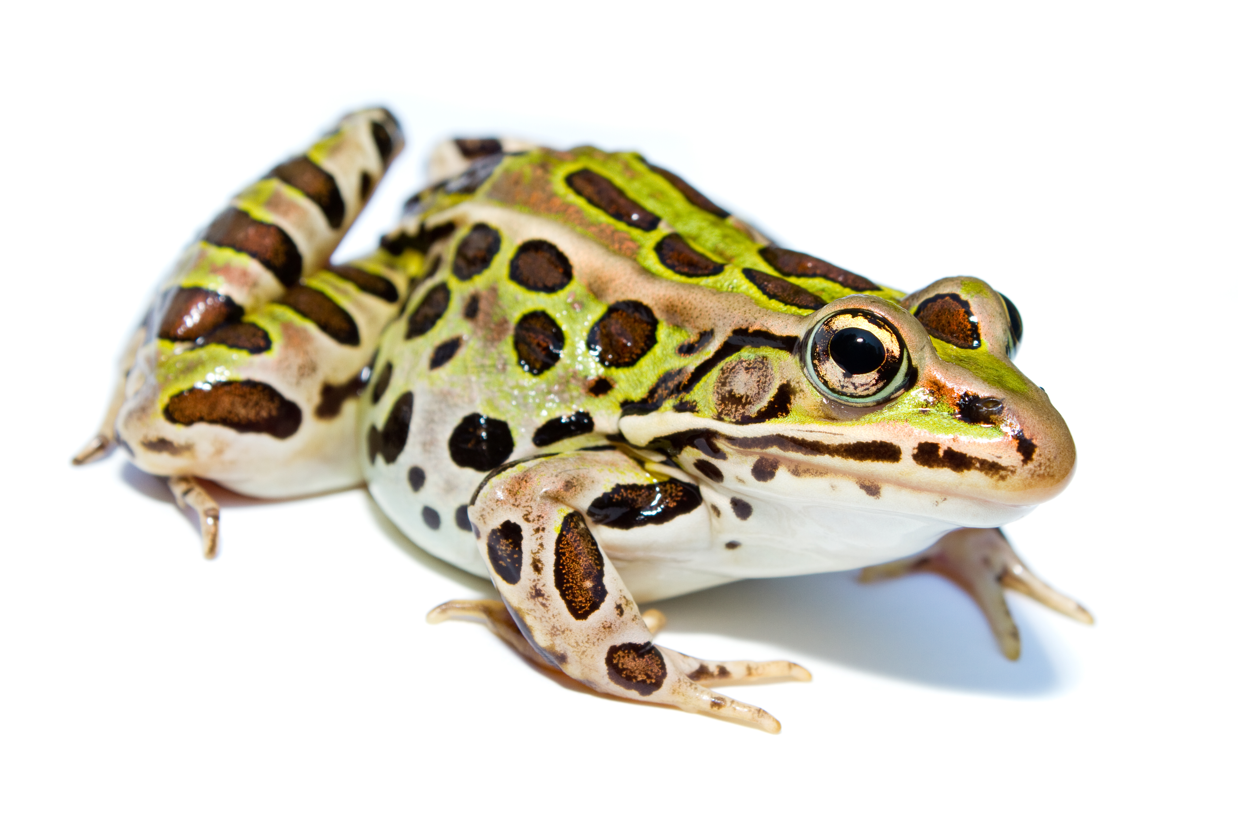 Northern Leopard Frog (Lithobates pipiens). Photo taken near Ottawa